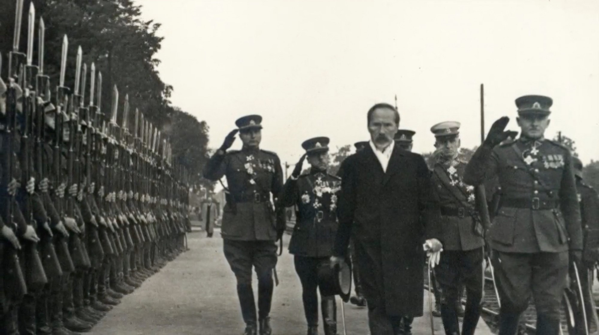 President of Lithuania Antanas Smetona inspects the Lithuanian Armed Forces soldiers during the interwar period.